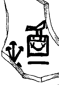 Serekh of Ka